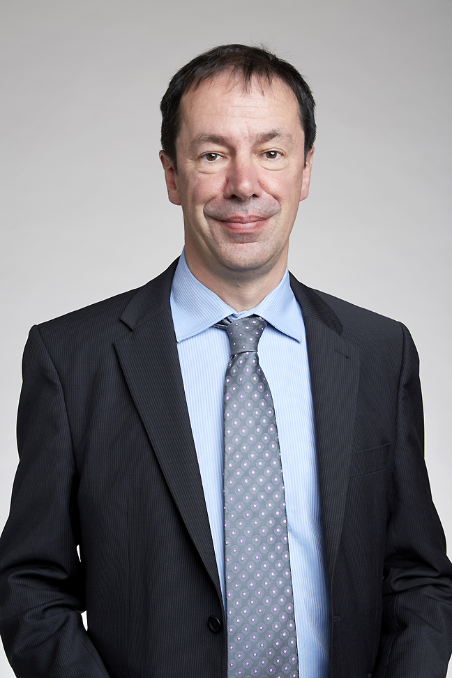 James Robert Durrant FRS is a professor of Photochemistry in the faculty of Natural Sciences, department of Chemistry at Imperial College London and Sêr Cymru Solar Professor in the College of Engineering at Swansea University. He is the Director of the Centre for Plastic Electronics (CPE). Attribution: The Royal Society